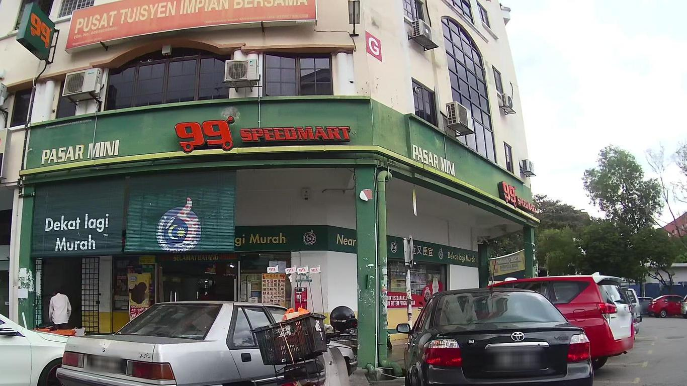 1203 - 99 Speedmart Taman Lembah Maju